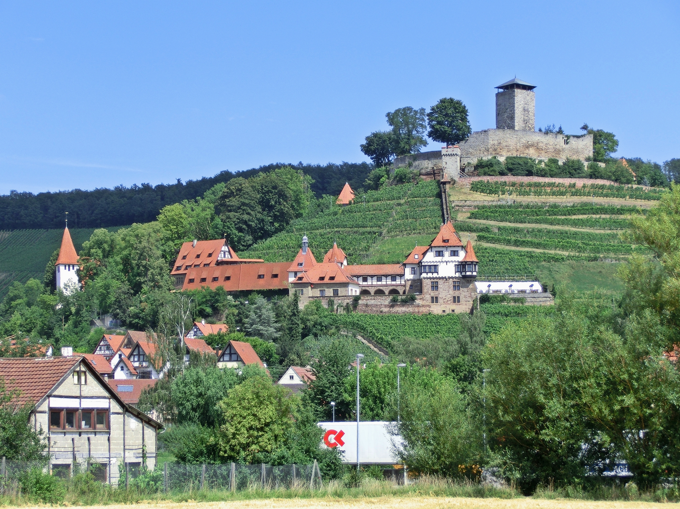 Hohenbeilstein castle, Beilstein, Baden-Württemberg.